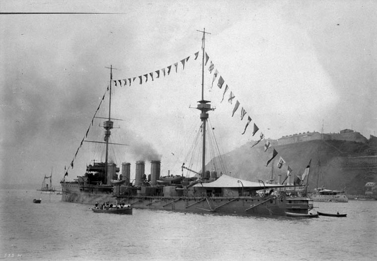 British armoured cruiser HMS Minotaur dressed at the Quebec Tercentenary.